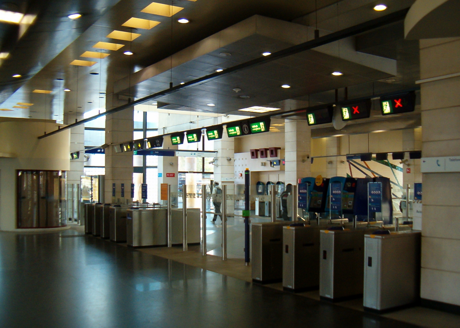 Photo of Pontinha metro station in Lisbon (turnicets)